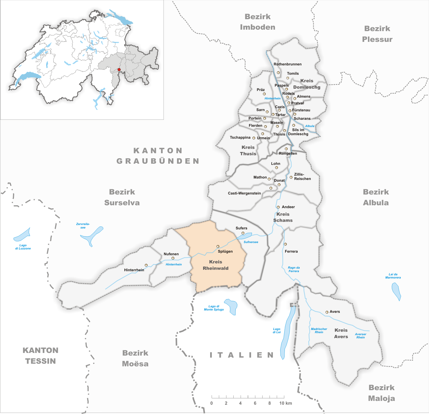 Municipality Splügen